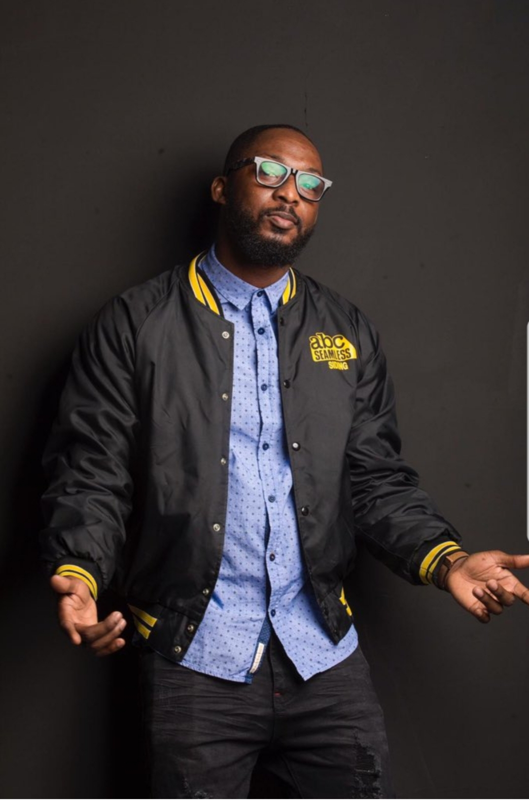 Officials